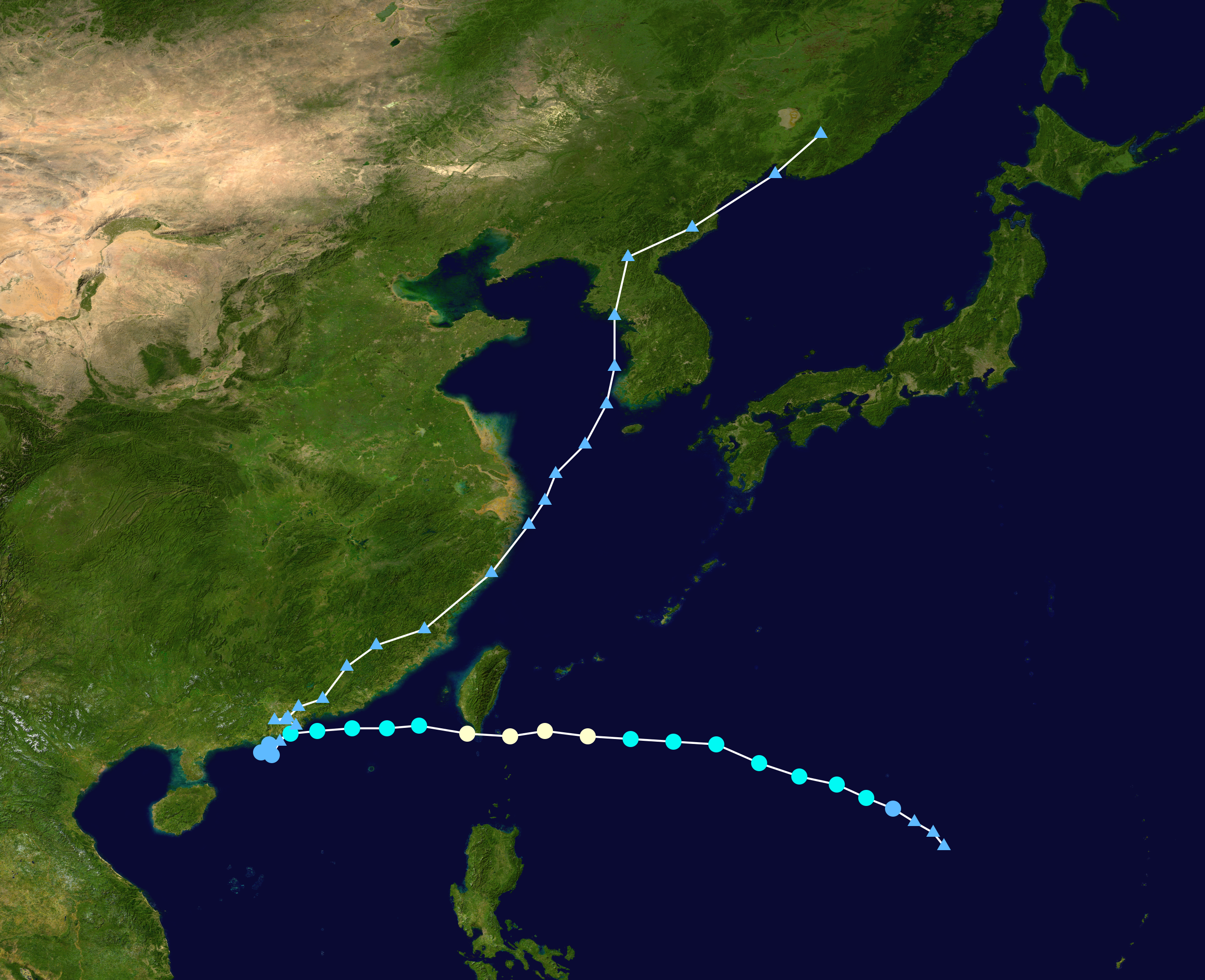 Track map of Typhoon Pabuk of the 2007 Pacific typhoon season. The points show the location of the storm at 6-hour intervals. The colour represents the storm's maximum sustained wind speeds as classified in the Saffir–Simpson scale (see below), and the shape of the data points represent the nature of the storm, according to the legend below. Saffir–Simpson scale Tropical depression≤38 mph≤62 km/h Category 3111–129 mph178–208 km/h Tropical storm39–73 mph63–118 km/h Category 4130–156 mph209–251 km/h Category 174–95 mph119–153 km/h Category 5≥157 mph≥252 km/h Category 296–110 mph154–177 km/h Unknown Storm type Tropical cyclone Subtropical cyclone Extratropical cyclone / Remnant low / Tropical disturbance / Monsoon depression